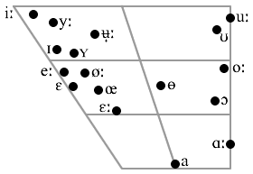 IPA vowel chart for Swedish.